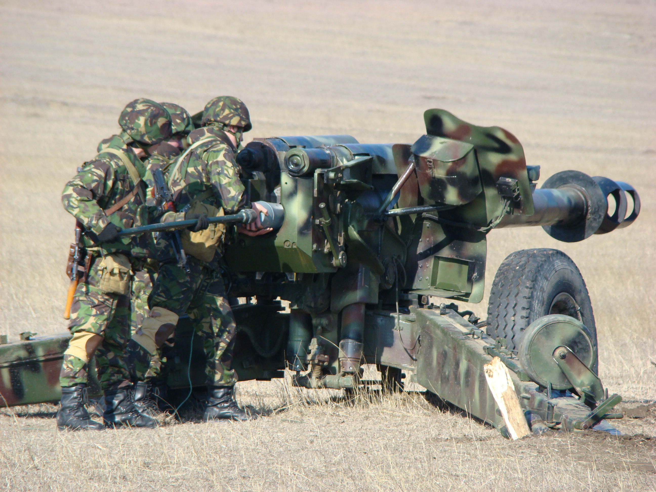 Real shooting tactical exercises in Smardan shooting-range with the 152 mm howitzer M81.